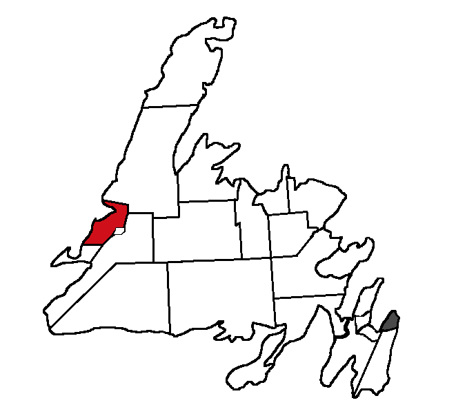 Map based on work by Earl Andrew, from maps used in 2007 elections Map based on work by Earl Andrew, from maps used in 2007 elections